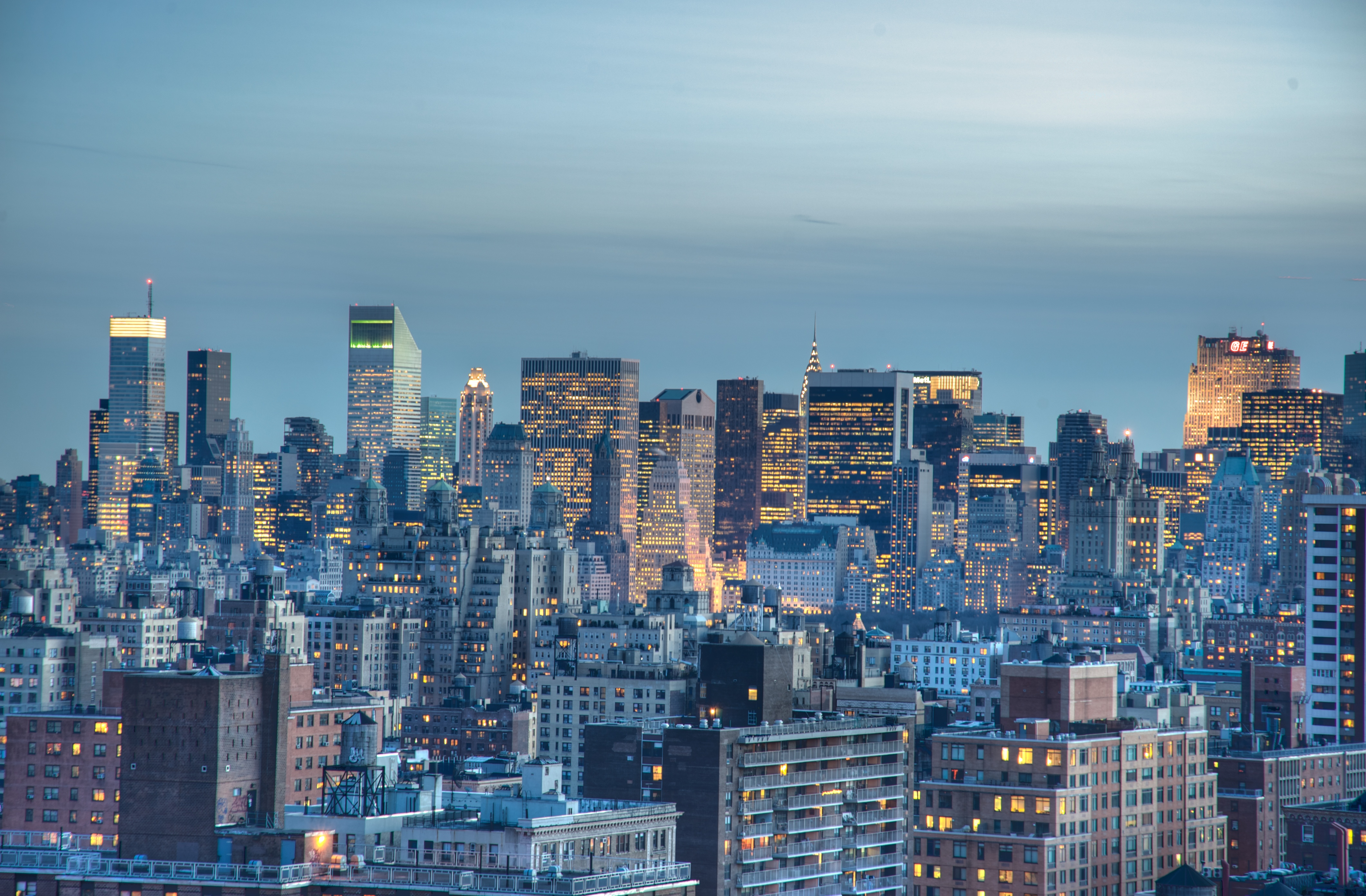 This is a view of the midtown Manhattan skyline, looking south from the roof of my apartment building. It's a 5-shot HDR image, taken on a tripod.